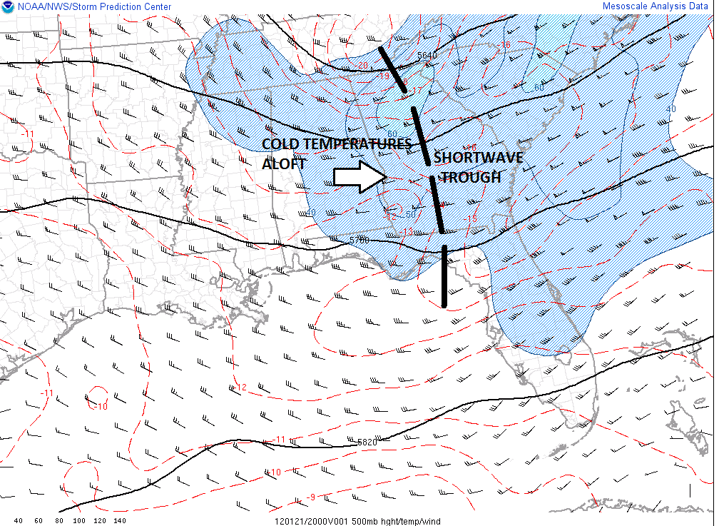 On Saturday, January 21, 2012, a potent shortwave trough pushed across the southeast U.S. in the afternoon and off the coast in the late evening. At the surface, temperatures across southeast Georgia were in the lower 70s and dewpoints were in the upper 50s by late Saturday afternoon. Though instability was not high at the time, strong shear and airmass modification ahead of a squall line enabled severe thunderstorms to develop and push into our southeast Georgia zones shortly after sunset. Several severe thunderstorm warnings were issued along with 2 tornado warnings. The storms primarly produced hail up to golfball size but no reports of tornadoes or significant wind damage were received.